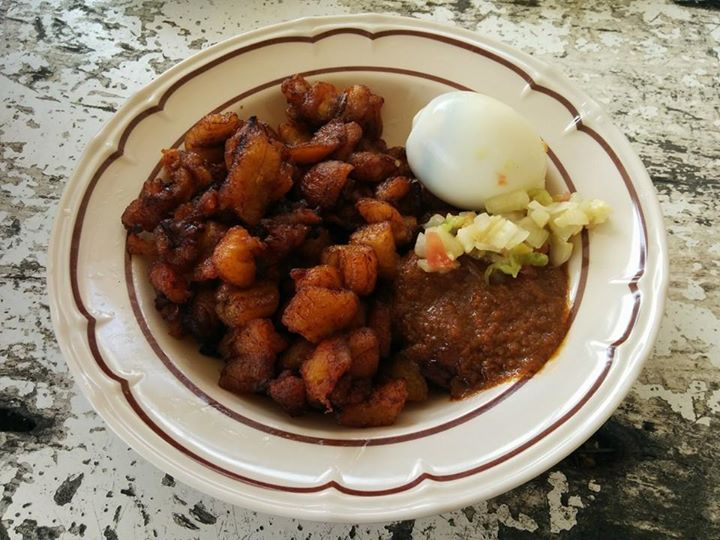 This is an image of food from Côte d'Ivoire